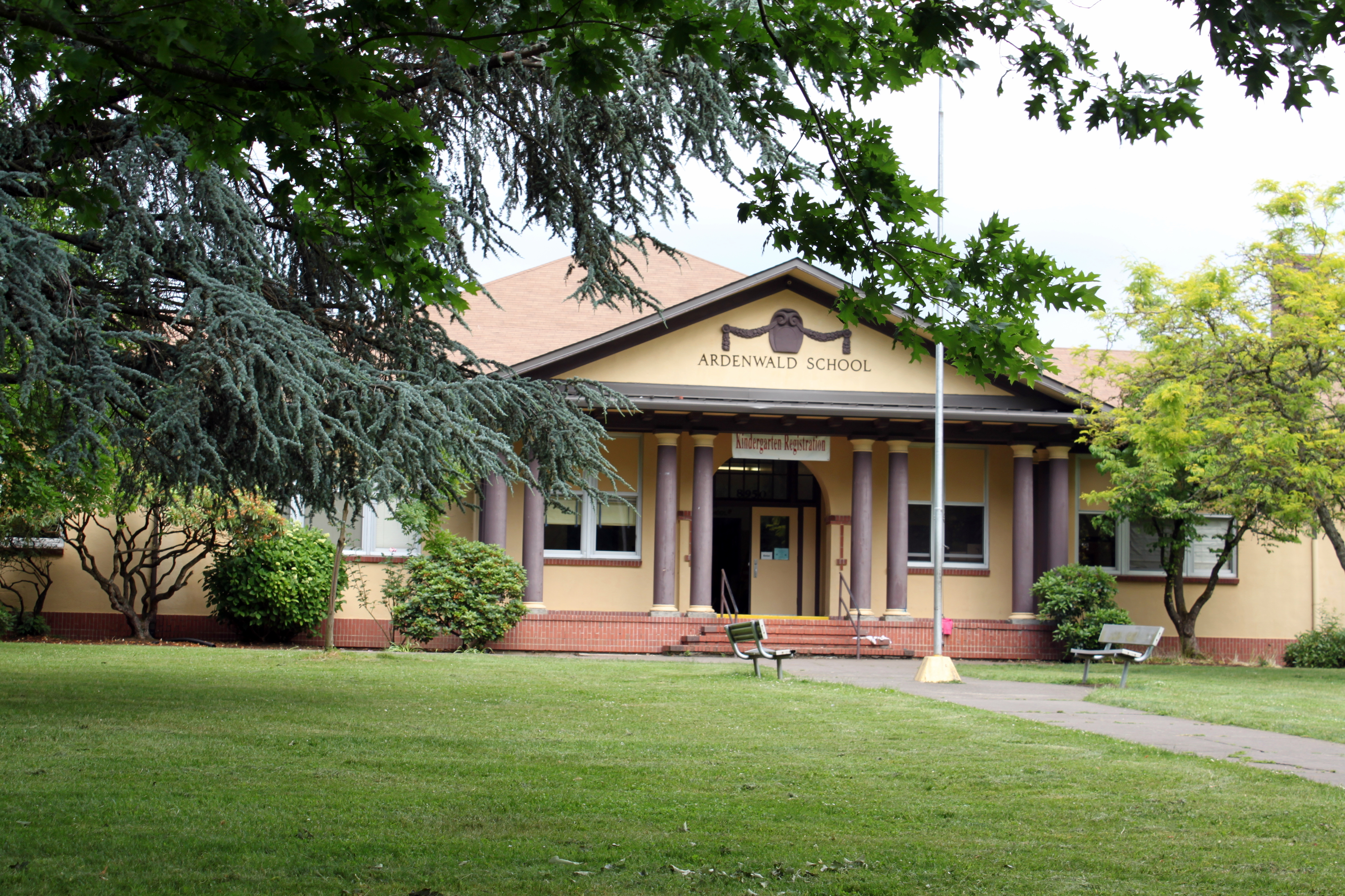 Ardenwald School in Ardenwald-Johnson Creek, Portland, Oregon. School is slated to be torn down in late 2009.